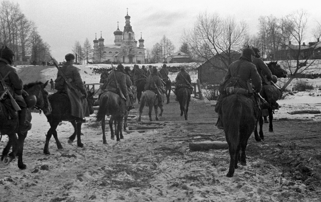 “A liberated town”. Soviet cavalrymen entering the liberated town. An Orthodox church in the background.